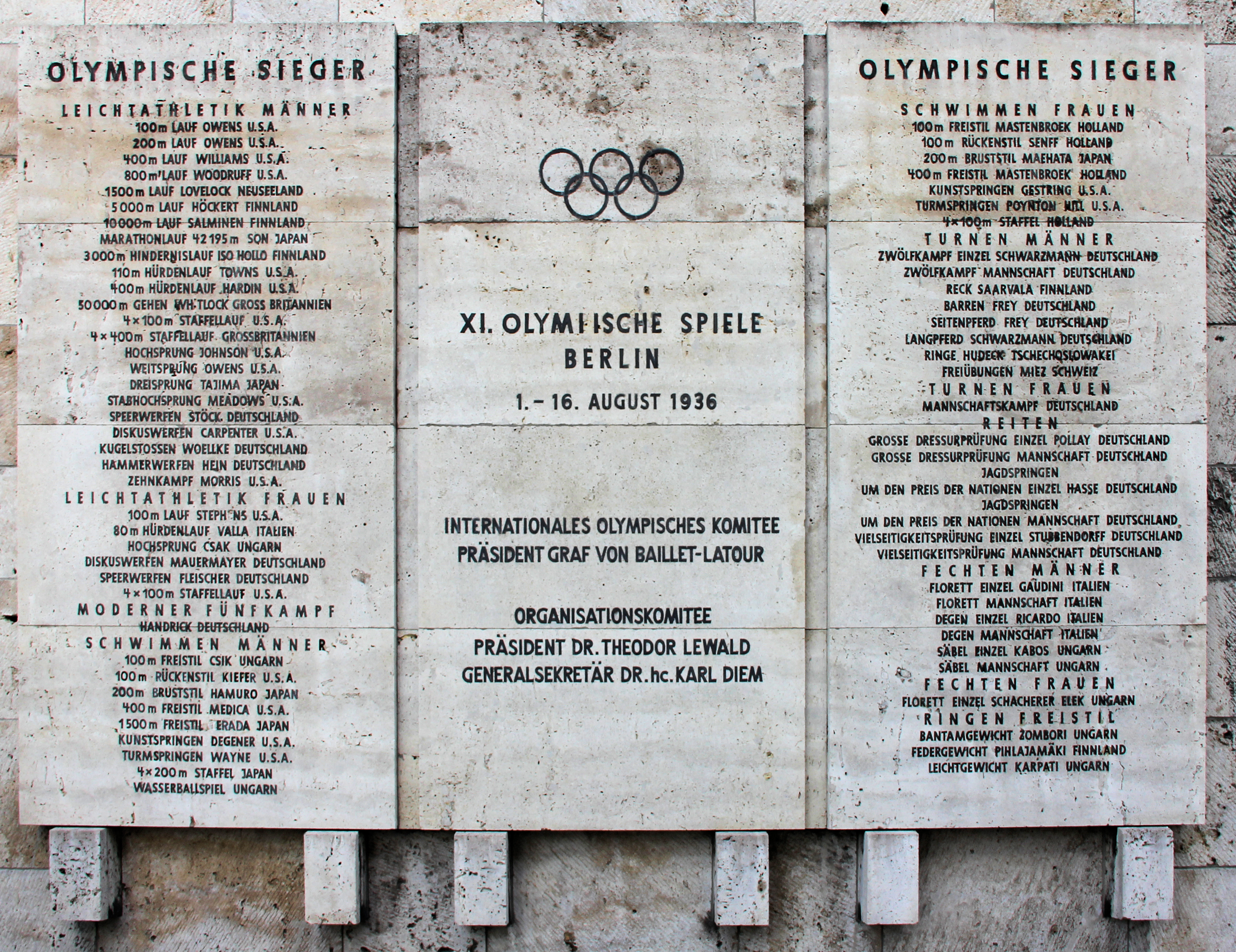 Memorial plaque, Olympische Sommerspiele 1936, Olympischer Platz 4, Berlin-Westend, Germany Koordinate:52°30′54″N 13°14′34″E / 52.515°N 13.24278°E